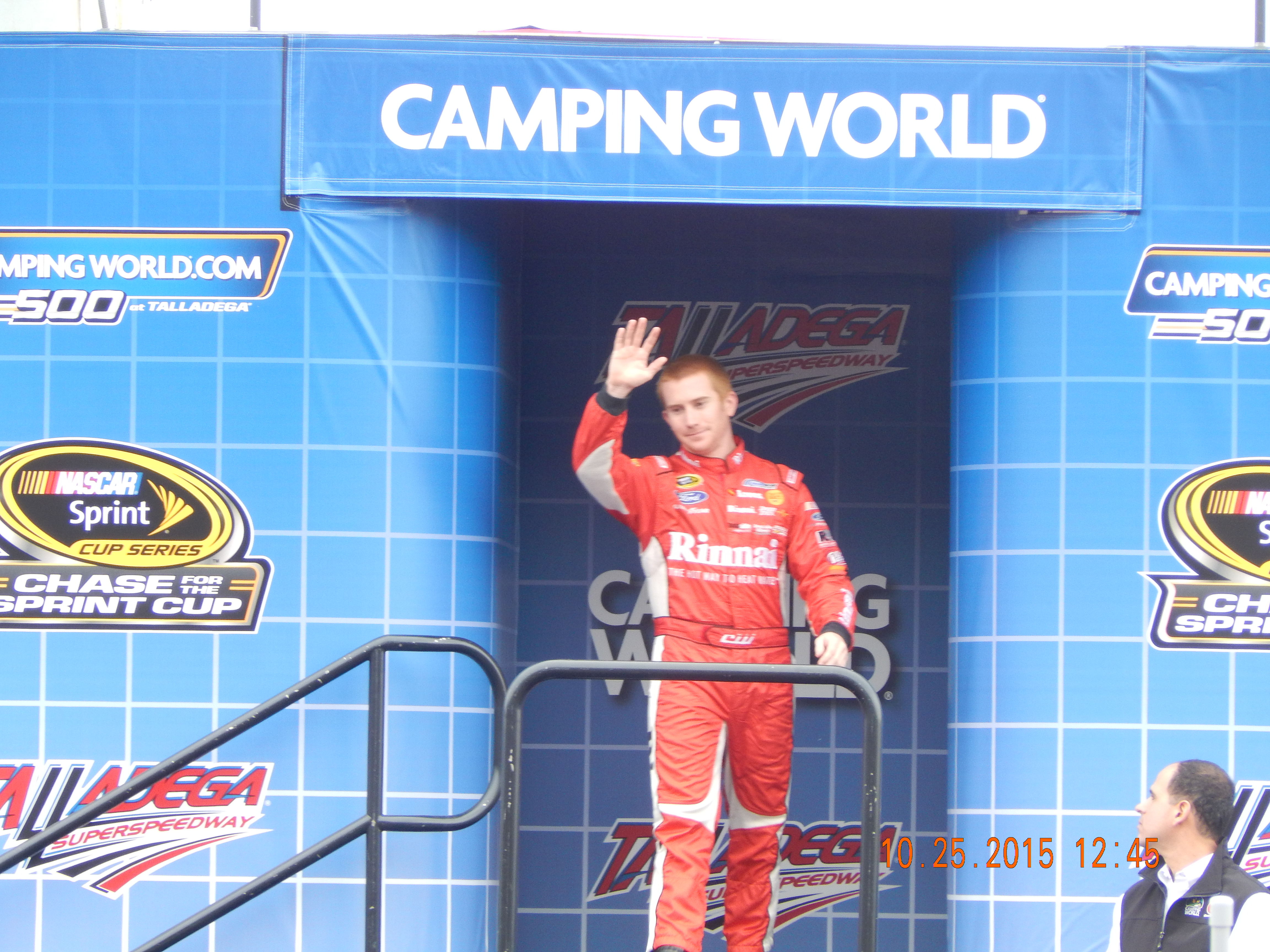 Cole Whitt being introduced to the crowd at Talladega Superspeedway.